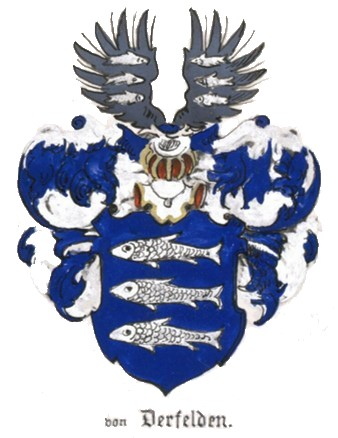 Coat pf arms of Derfelden family.